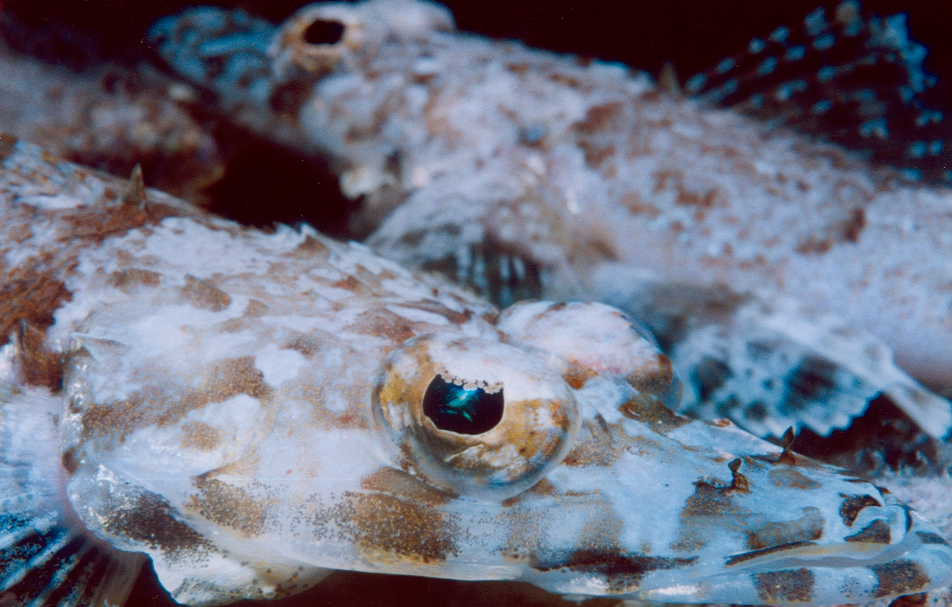 Longsnout flathead (Thysanophrys chiltonae). Although normally solitary, two are seen in this image Image ID: reef0980, NOAA's Coral Kingdom Collection Location: Guam, Mariana Islands